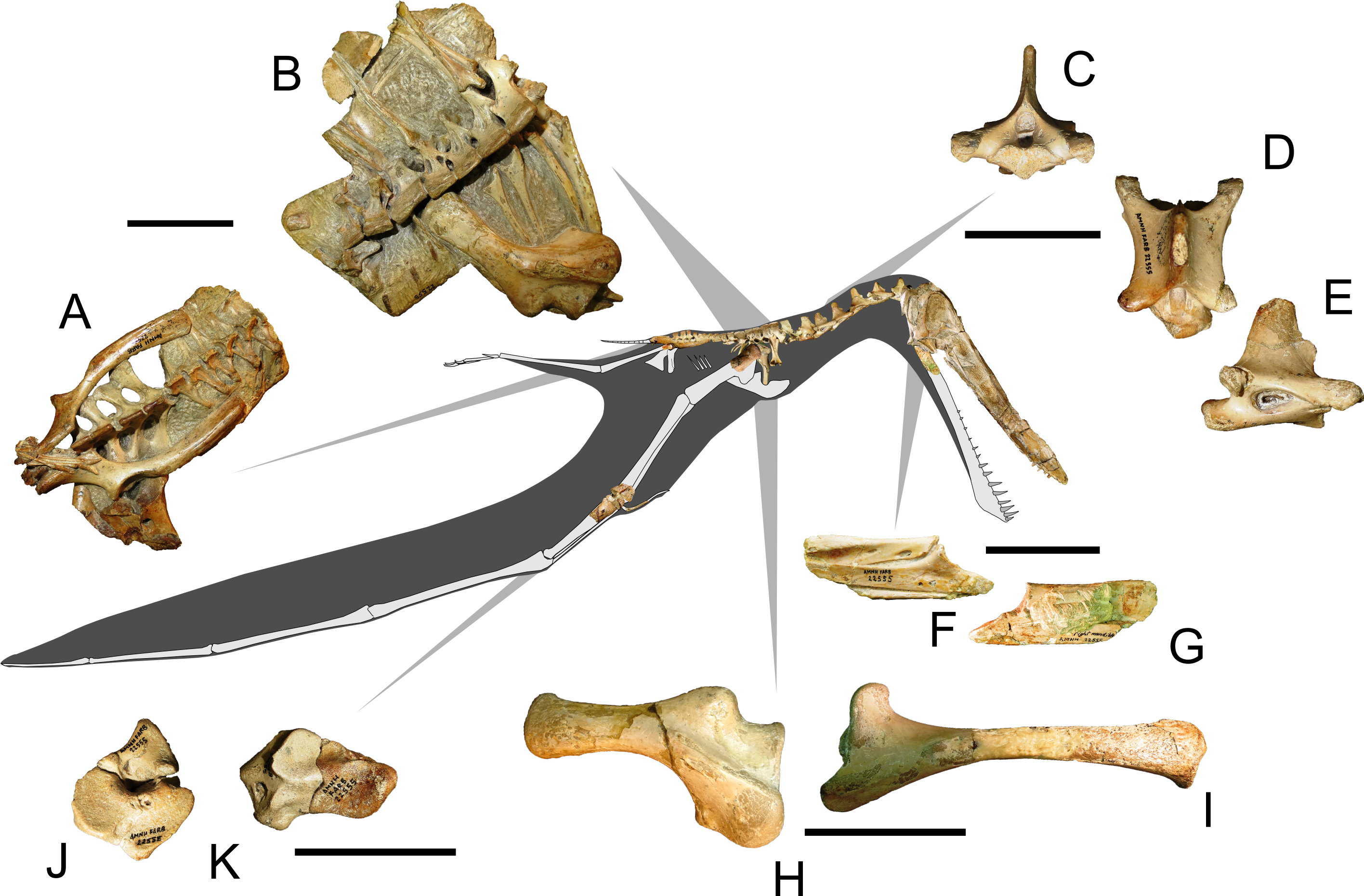 Specimen AMNH 22555, a partial anhanguerid skeleton. Some selected elements are figured in detail. (A) pelvic region in dorsal view; (B) torso in dorsal view; (C, D, E) sixth cervical vertebrae in, respectively, anterior, dorsal and right lateral views; (F, G) right mandibular ramus in, respectively, medial and lateral views; (H) left scapula in dorsal view; (I) left coracoid in lateral view; (J) distal carpals in distal view; (K) proximal carpals in distal view. Scale bars equal to 50 mm. Line drawings of some bones were modified from Witton (2013).